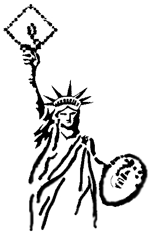 League for Programming Freedom